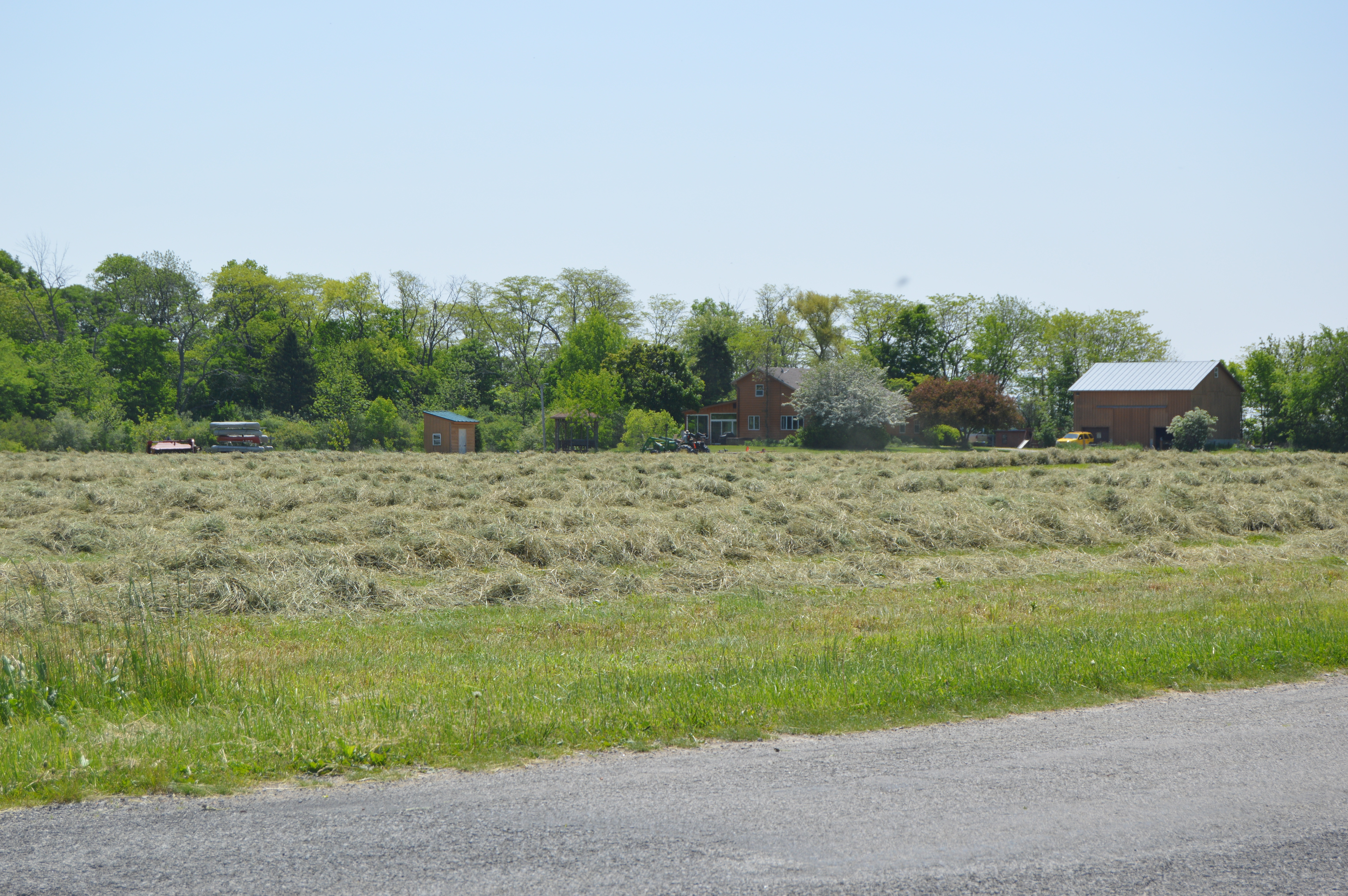 A newly mown hay field on the eastern side of Benschoter Road east of Grand Rapids in Grand Rapids Township, Wood County, Ohio, United States.